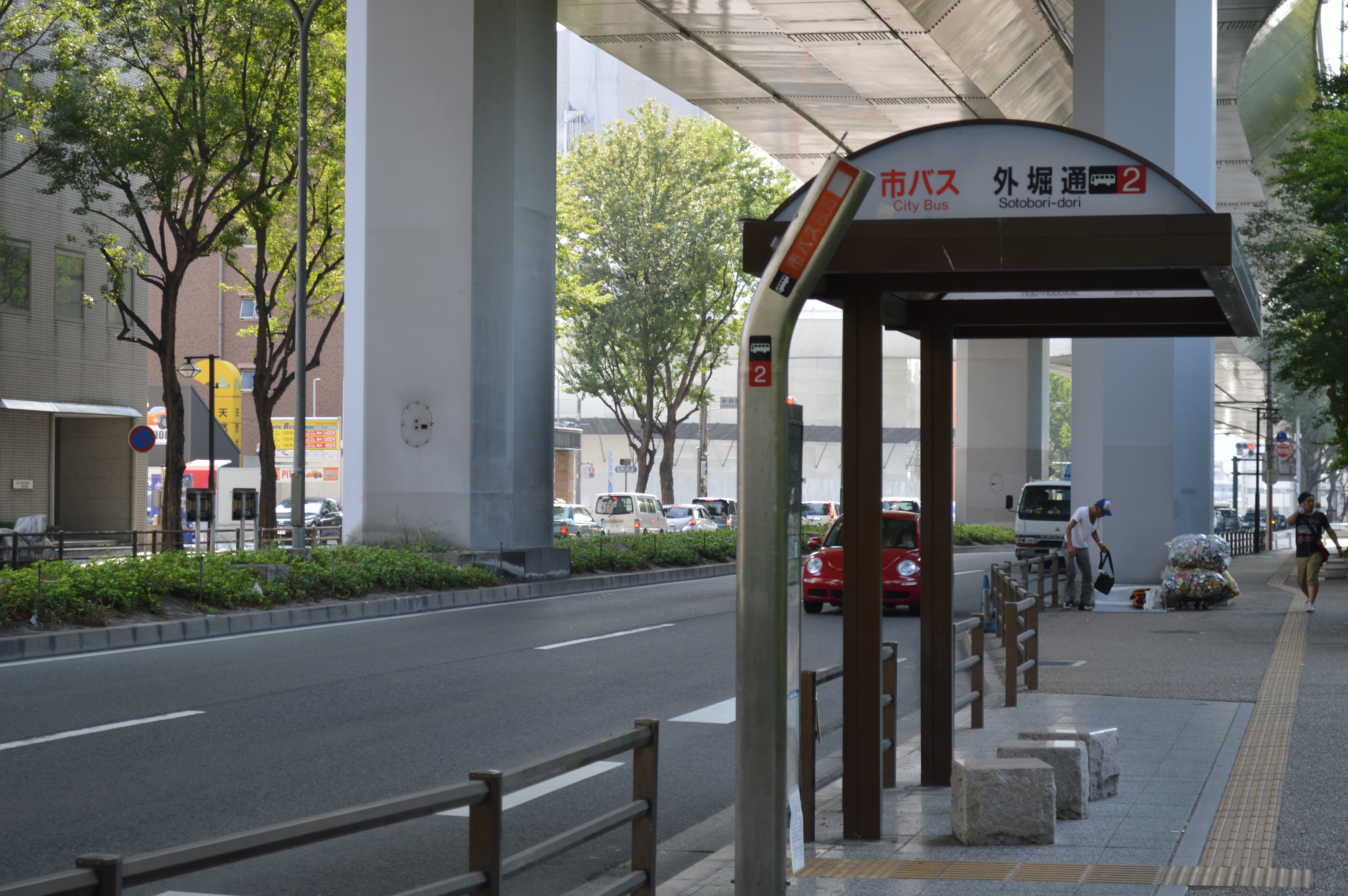 Nagoya City Bus Sotobori-dori Bus Stop